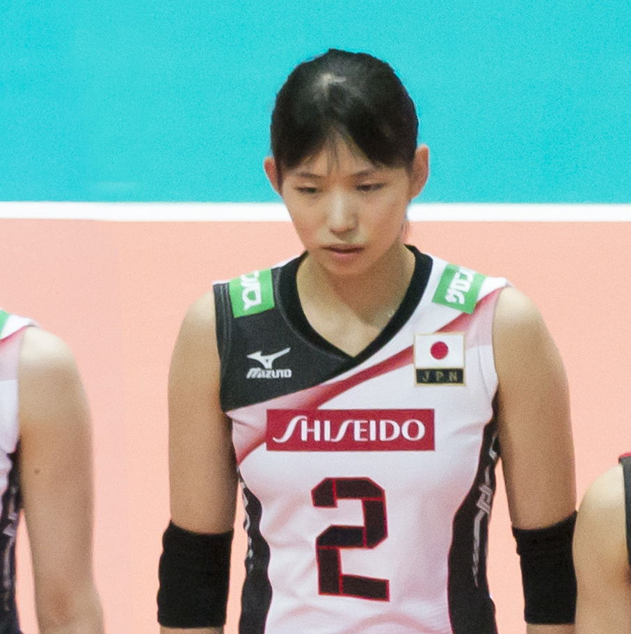 JAPAN TEAM 2. SARINA KOGA 3. NANA IWASAKA 4. RISA SHINNABE 9. HARUYO SHIMAMURA 10. KOYOMI TOMINAGA 11. YURIE NABEYA 12. MIYA SATO 13. MAI OKUMURA 14. AYAKA MATSUMOTO 16. RISA ISHII 18. MAMI UCHISETO 20. MAKO KOBATA 21. KOTOE INOUE 23. RIKA NOMOTO 24. MIZUKI TANAKA